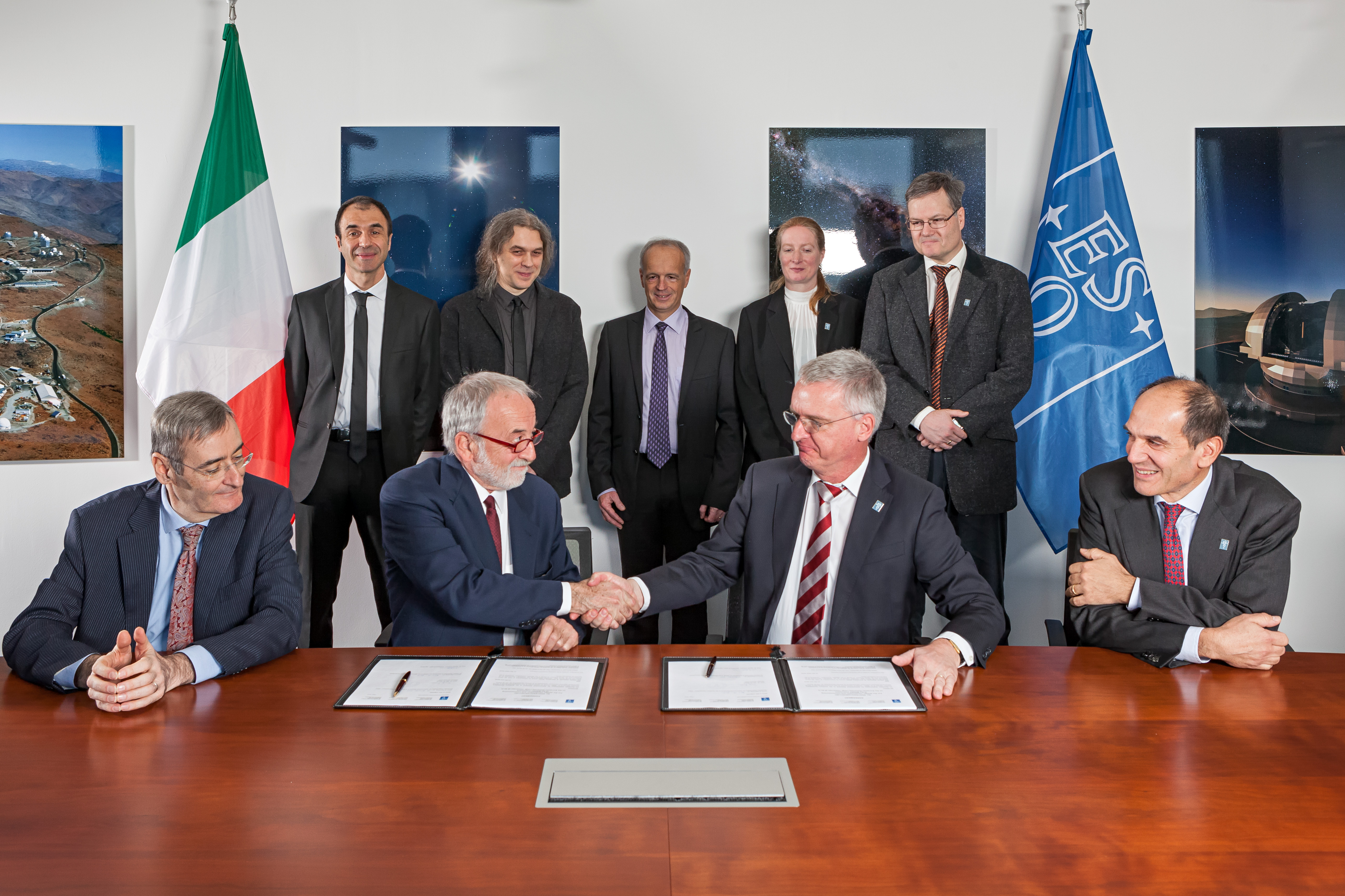 At a ceremony held at ESO Headquarters in Garching bei München, Germany, on 10 December 2015 an agreement was signed between ESO and an international consortium for the design and construction of the MAORY adaptive optics system for the European Extremely Large Telescope (E-ELT). The agreement was signed by Nicolò D'Amico, President of the Istituto Nazionale di Astrofisica (INAF, Italy), on behalf of the consortium, and Tim de Zeeuw, ESO Director General.